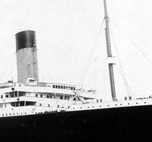 Zoom on RMS Titanic's bridge and crow nest